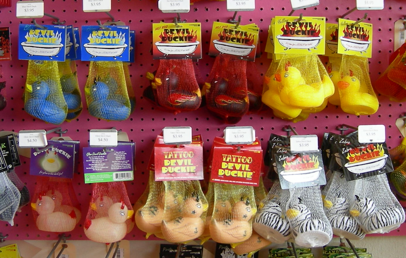 A wide variety of rubber ducks, Archie McPhee store, Ballard, Seattle, Washington.